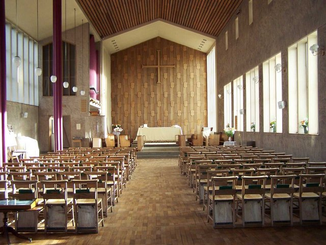 Inside the nave of Emmanuel parish church, Bentley, Walsall, West Midlands, looking east to the chancel